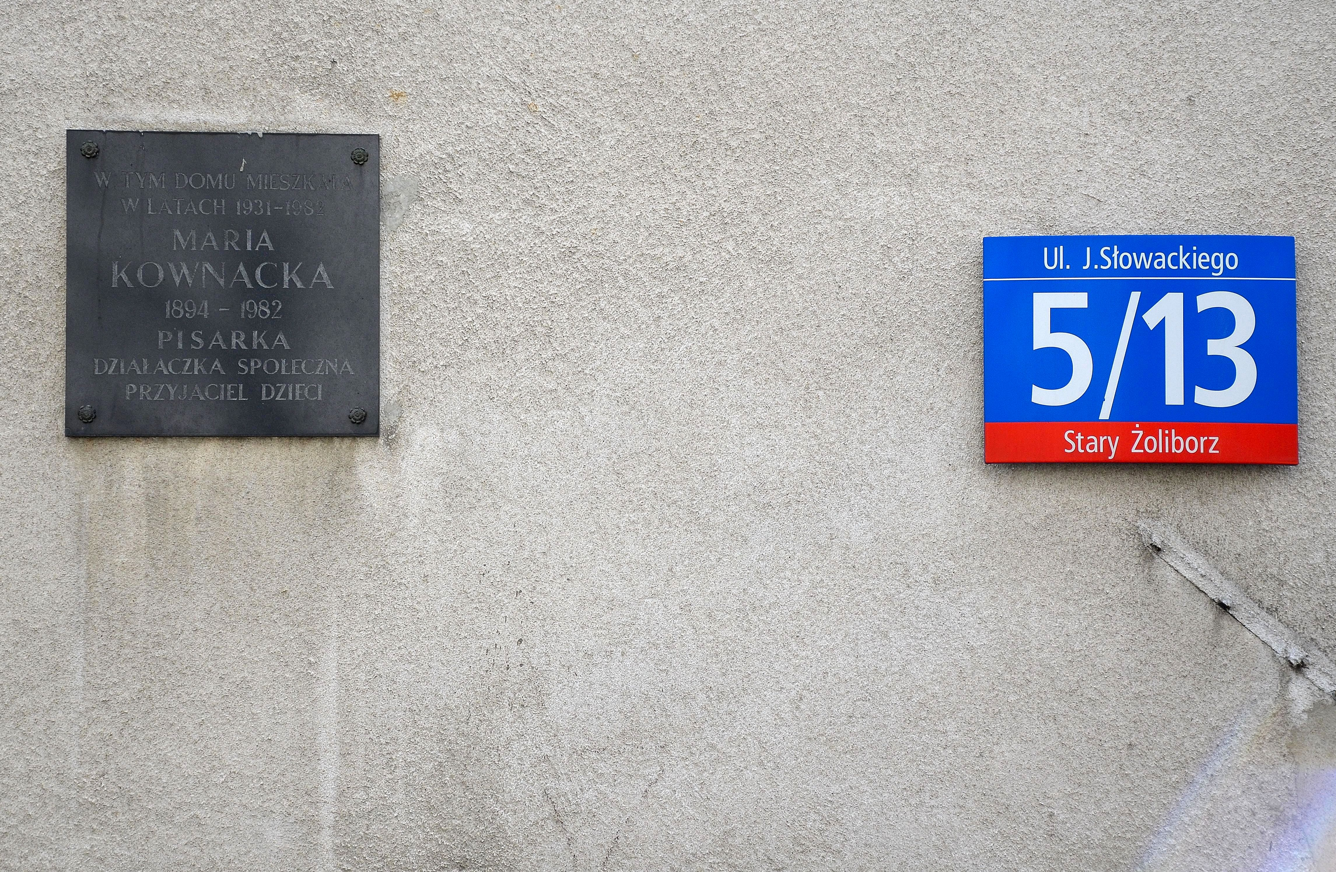 Plaque in memory of Maria Kownacka at 5/13 Mickiewicza Street in Warsaw